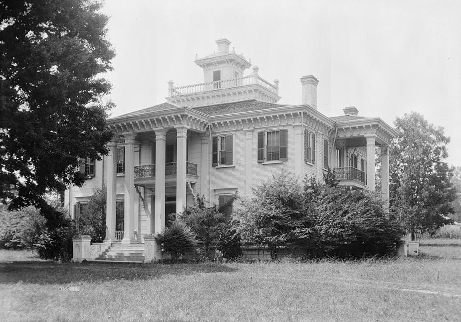 Malmaison — Carrollton vicinity (Carroll County, Mississippi) cropped, HABS MISS,8-CARL.V,1-1, National Register of Historic Places NRIS Number: 70000317 House burned in 1940s - Image courtesy of Historic American Buildings Survey—HABS. This file comes from the Historic American Buildings Survey (HABS), Historic American Engineering Record (HAER) or Historic American Landscapes Survey (HALS). These are programs of the National Park Service established for the purpose of documenting historic places. Records consist of measured drawings, archival photographs, and written reports. When reusing please credit: Library of Congress, Prints & Photographs Division, MS-110 This tag does not indicate the copyright status of the attached work. A normal copyright tag is still required. See Commons:Licensing. This work is in the public domain in the United States because it is a work prepared by an officer or employee of the United States Government as part of that person’s official duties under the terms of Title 17, Chapter 1, Section 105 of the US Code. Note: This only applies to original works of the Federal Government and not to the work of any individual U.S. state, territory, commonwealth, county, municipality, or any other subdivision. This template also does not apply to postage stamp designs published by the United States Postal Service since 1978. (See § 313.6(C)(1) of Compendium of U.S. Copyright Office Practices). It also does not apply to certain US coins; see The US Mint Terms of Use. This file has been identified as being free of known restrictions under copyright law, including all related and neighboring rights.